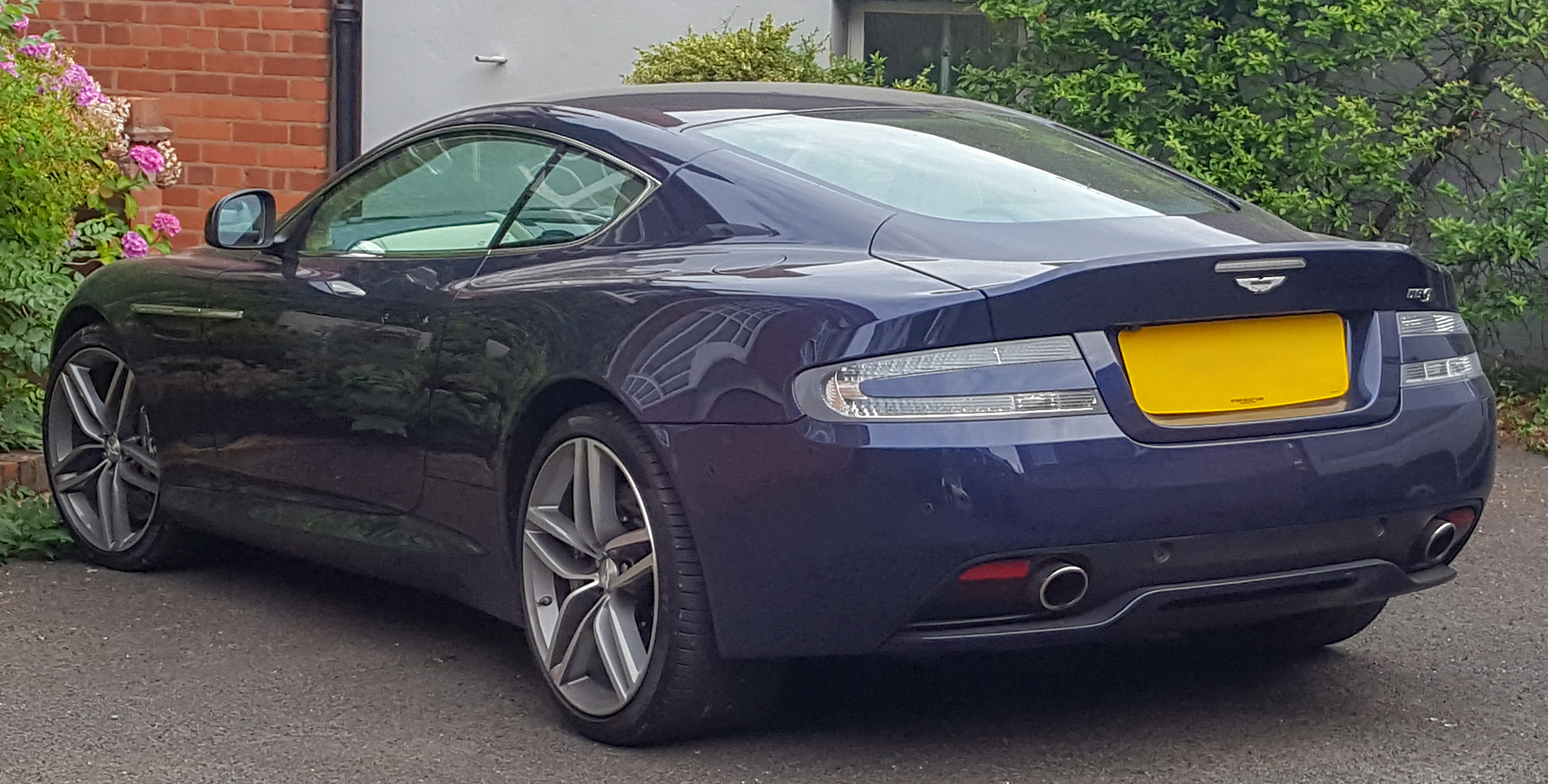 2015 Aston Martin DB9 V12 Automatic 5.9 Taken in Warwick